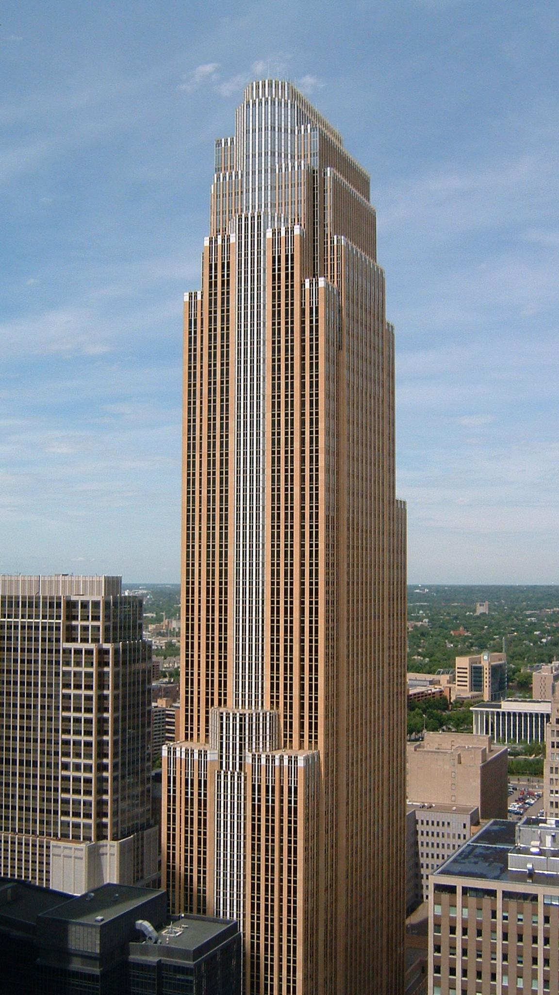 Wells Fargo Center as viewed from the Foshay Tower in Minneapolis, Minnesota. Photo taken on June 8, 2005 by User:Mulad. Hereby released into the public domain.